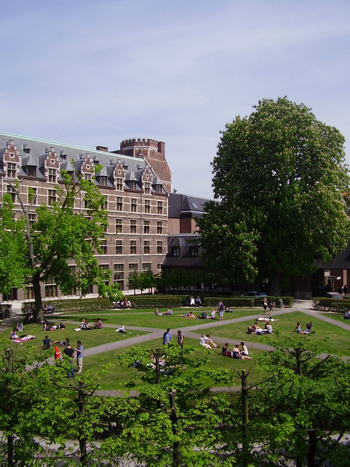 CityCampus of the University of Antwerp